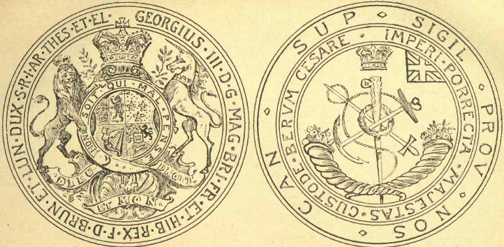 Great Seal of Upper Canada from 1792 to 1840